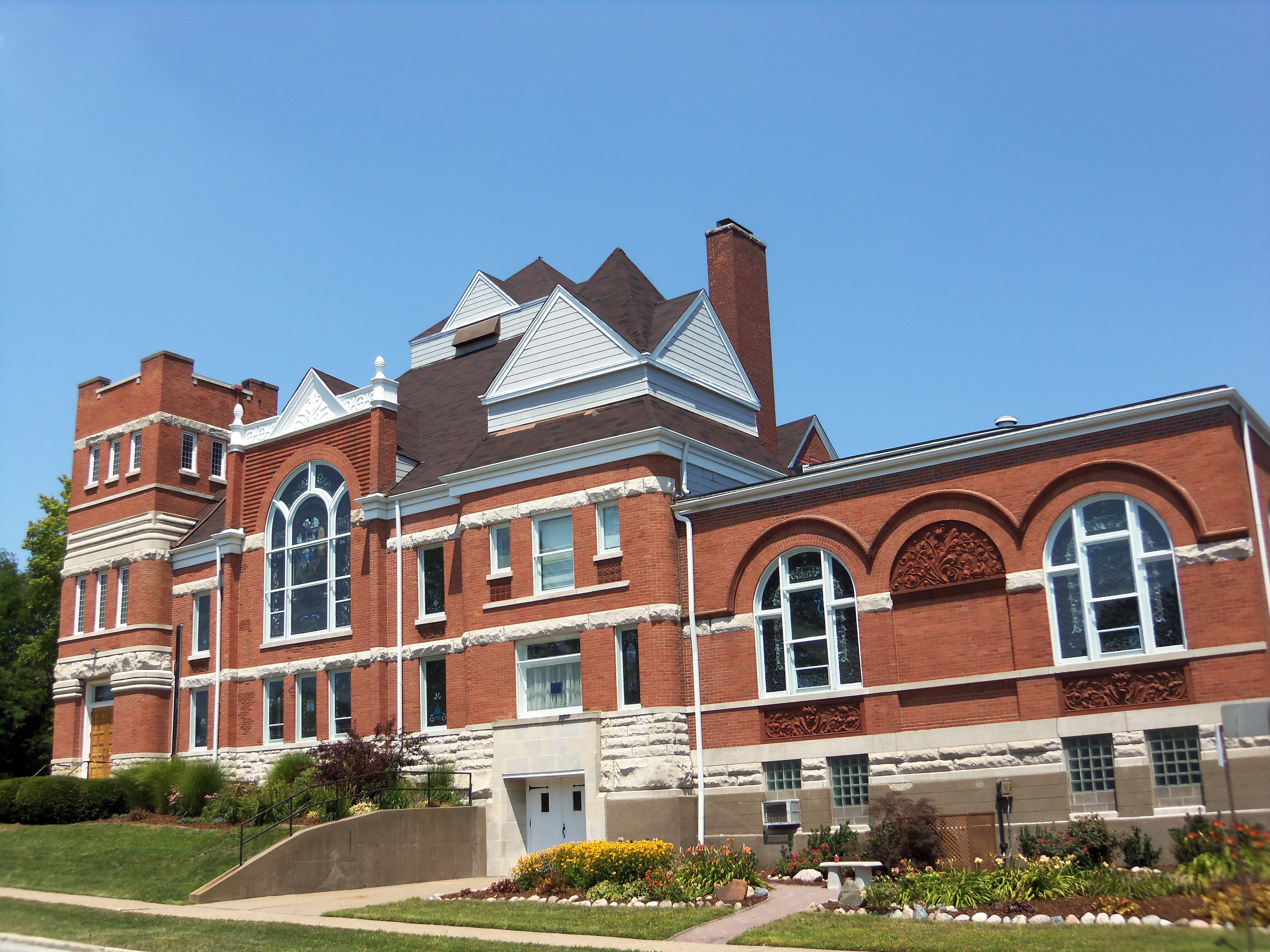 First Baptist Church (Built as Calvary Baptist Church) in Davenport, Iowa is listed on the National Register of Historic places.